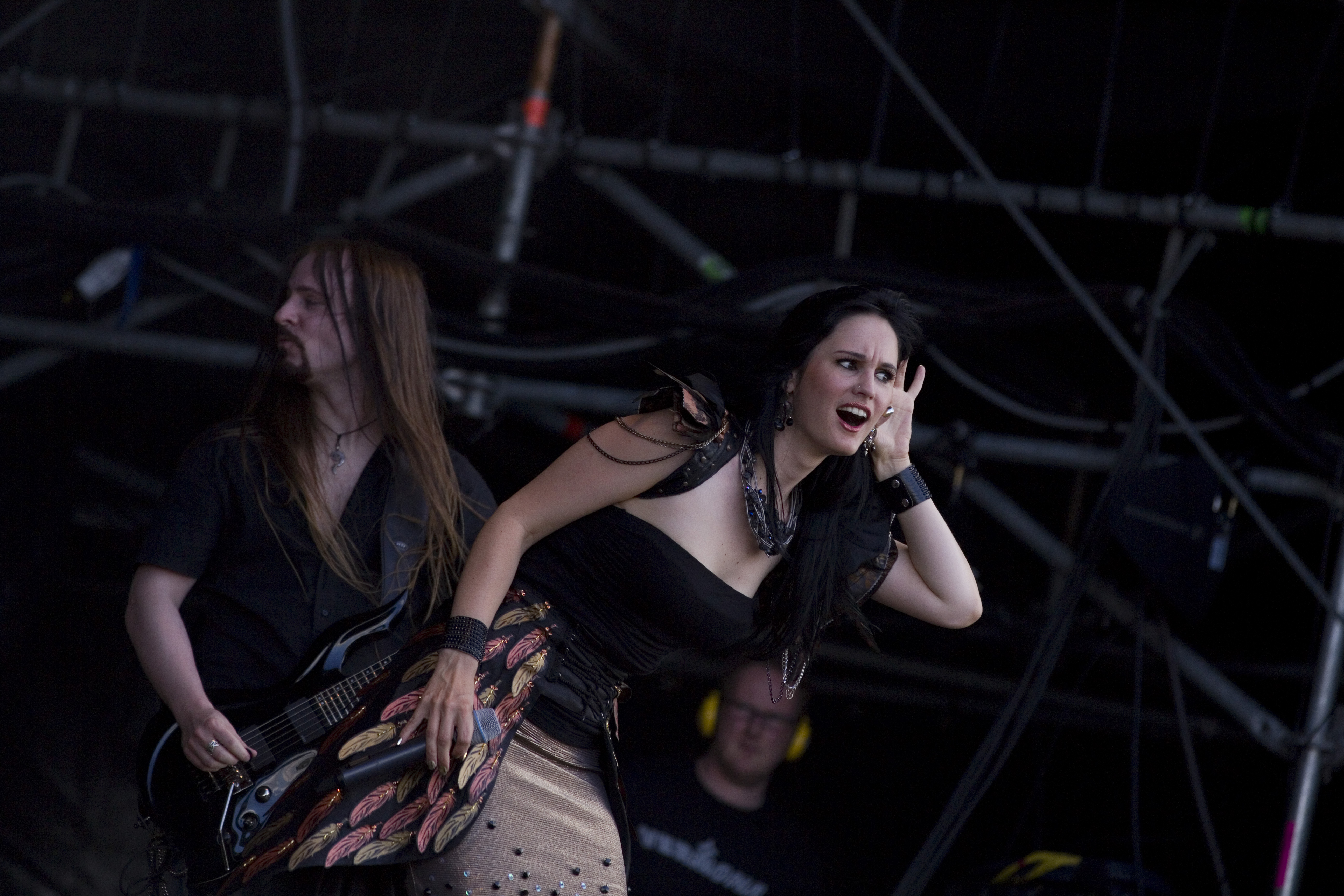 The German symphonic metal band Xandria at the Rockharz Open Air 2014 in Ballenstedt/Germany